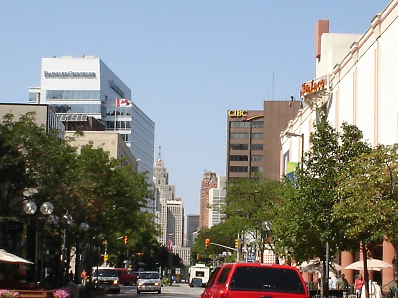 Ouellette Avenue is Windsor's main street. This view is looking north toward Detroit.